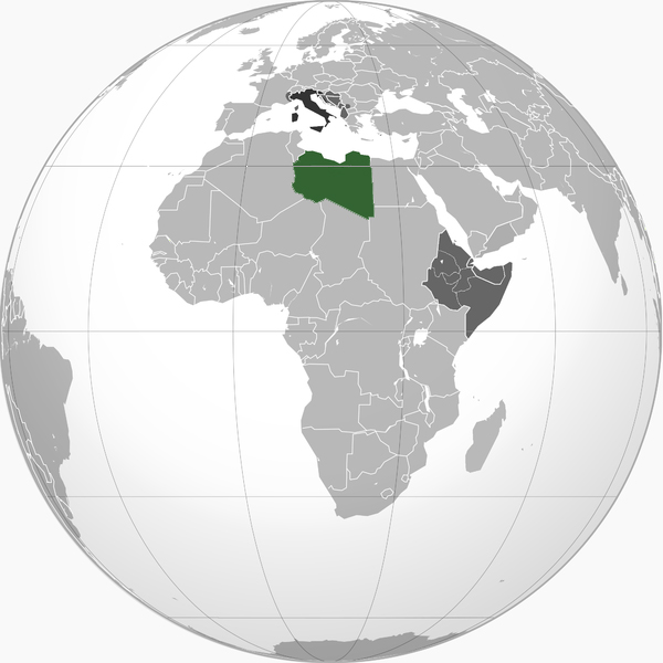 Map showing the position of Italian North Africa among the other territories forming the Italian Empire in 1936.